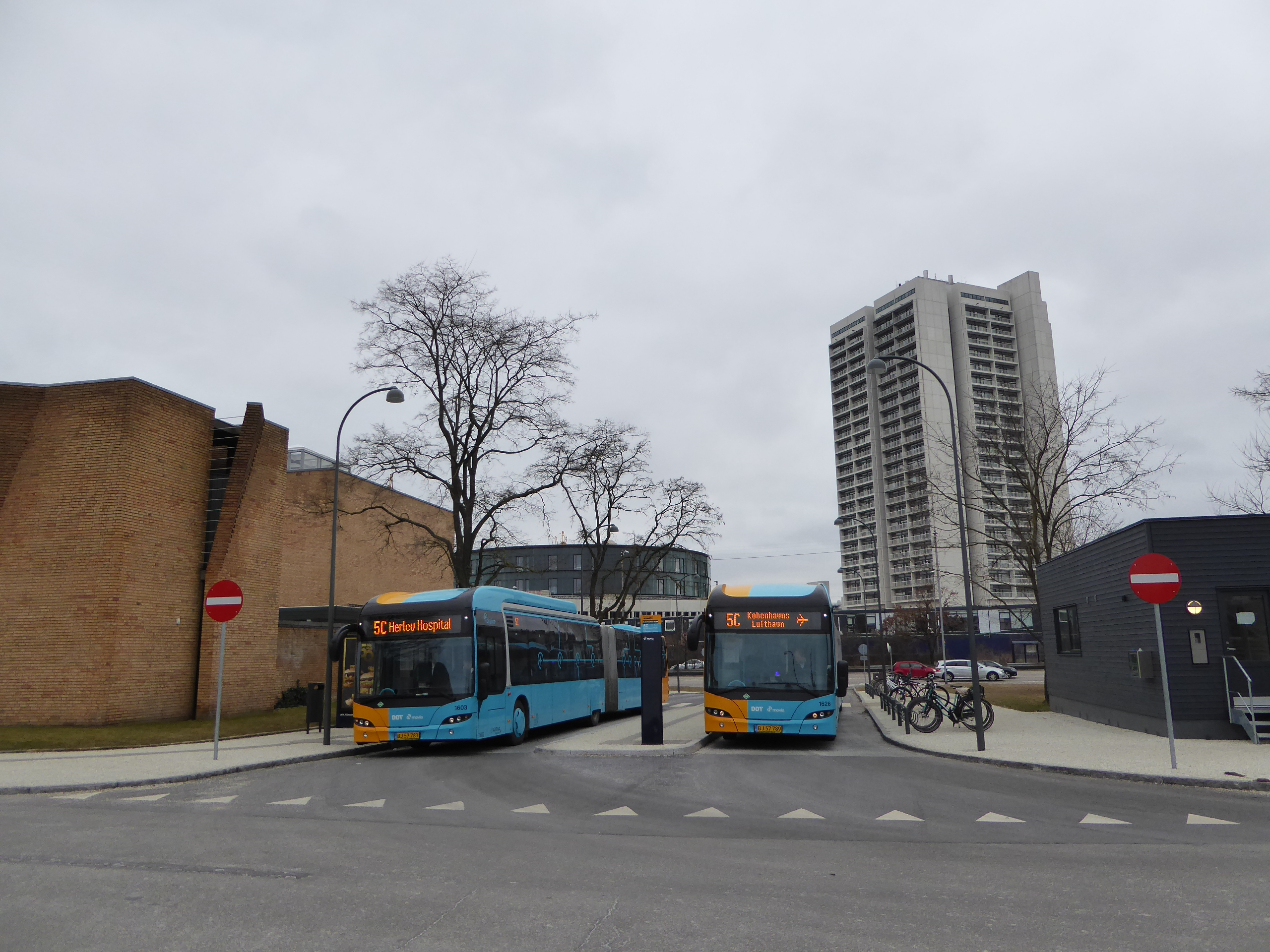 Two Movia bus line 5C at the endpoint at Herlev Hospital in Copenhagen.